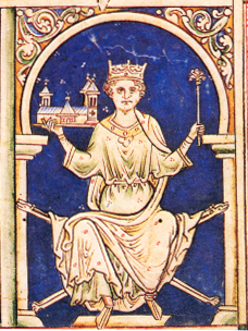 Henry III of England